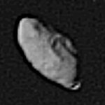 Saturn's satellite Prometheus, acquired by the Voyager 2 spacecraft on August 25, 1981.